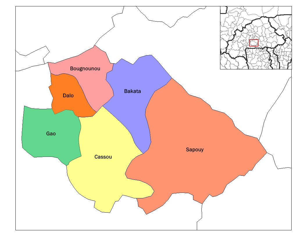 This map has been uploaded by Osiris fancy from to enable the Wikimedia Atlas of the World. Original uploader to was Rarelibra. Osiris fancy is not the creator of this map. Licensing information is below. Map of the departments of Ziro province in Burkina Faso. Created by Rarelibra 03:41, 30 September 2006 (UTC) for public domain use, using MapInfo Professional v8.5 and various mapping resources.